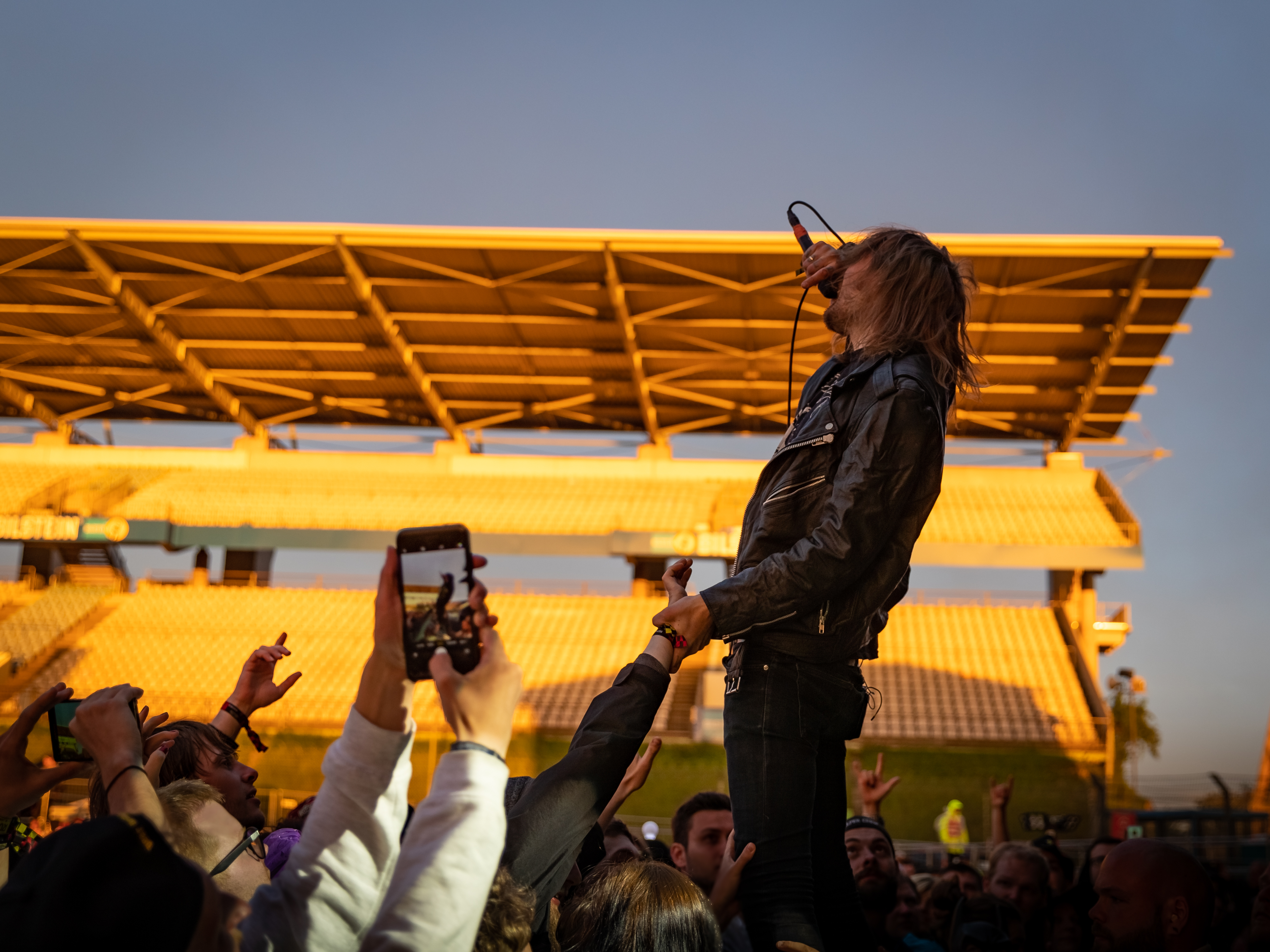 Kvelertak - Rock am Ring 2019